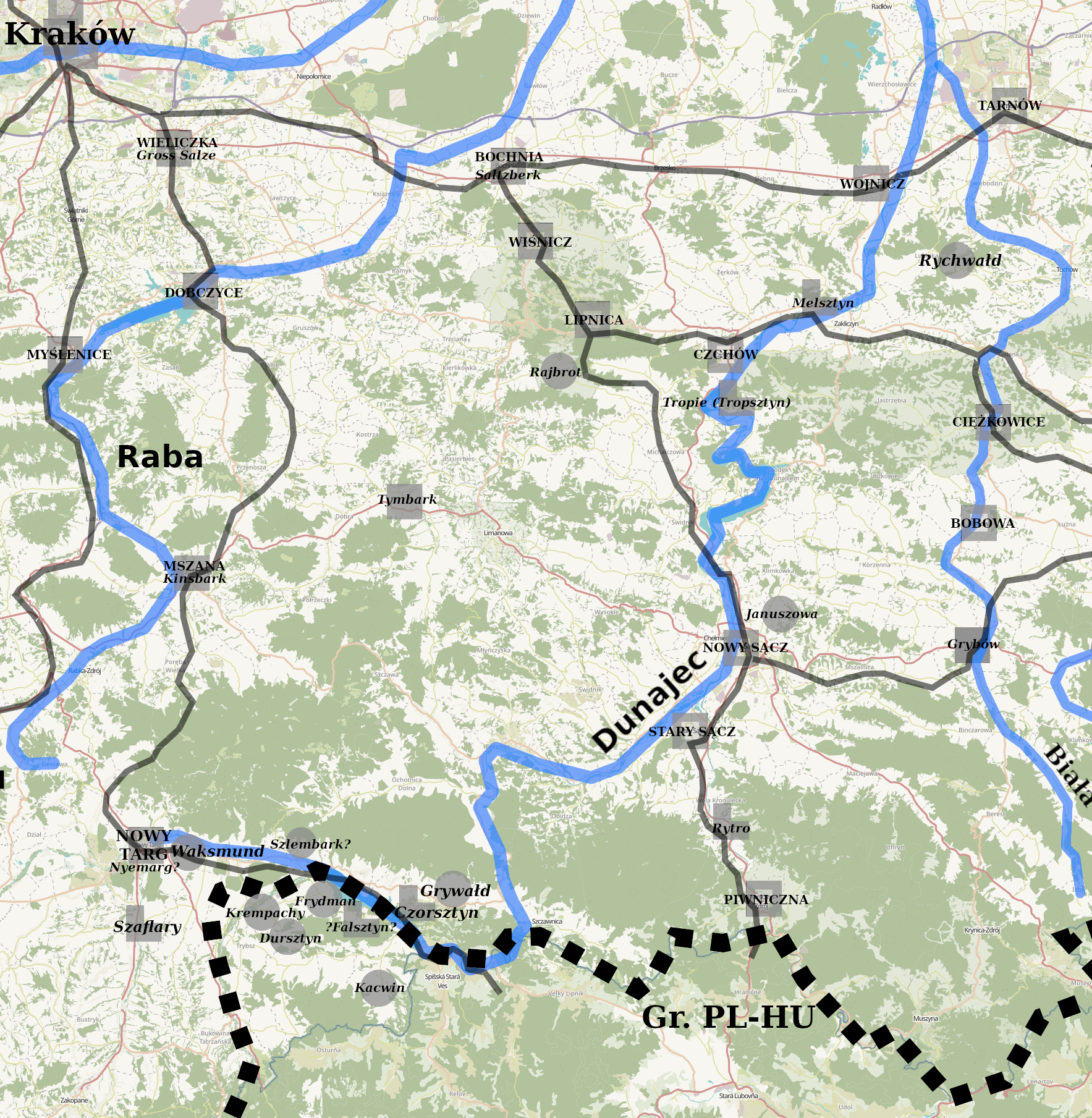 Some medieval place names of German origin in Little Poland, on Raba, Dunajec and Biała; black lines - main trade routes (16th century, but mostly unchanged since the middle ages); grey circles - villages; grey squares - towns; grey empty squares - other cities along the trade routes; grey angles - castles